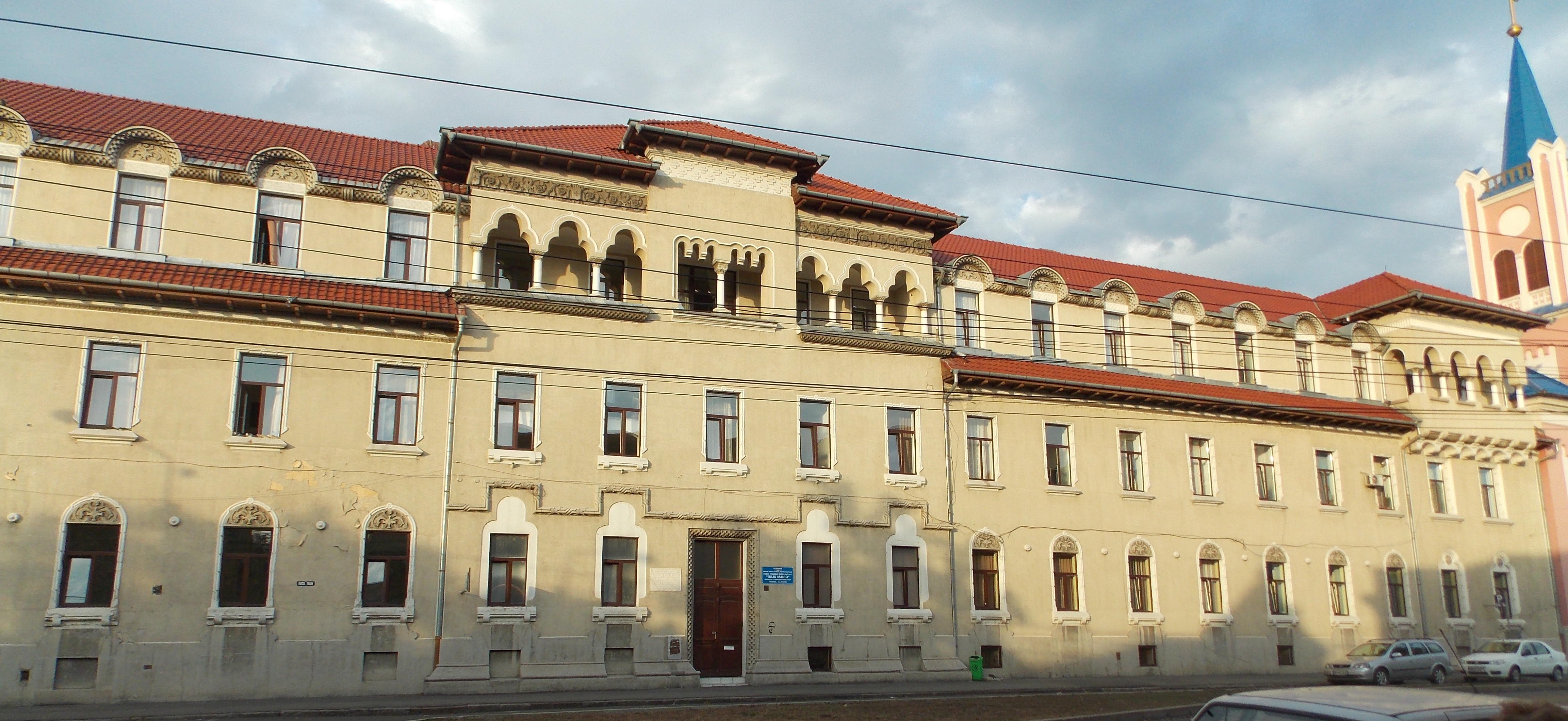 Greek Catholic Seminar - Oradea